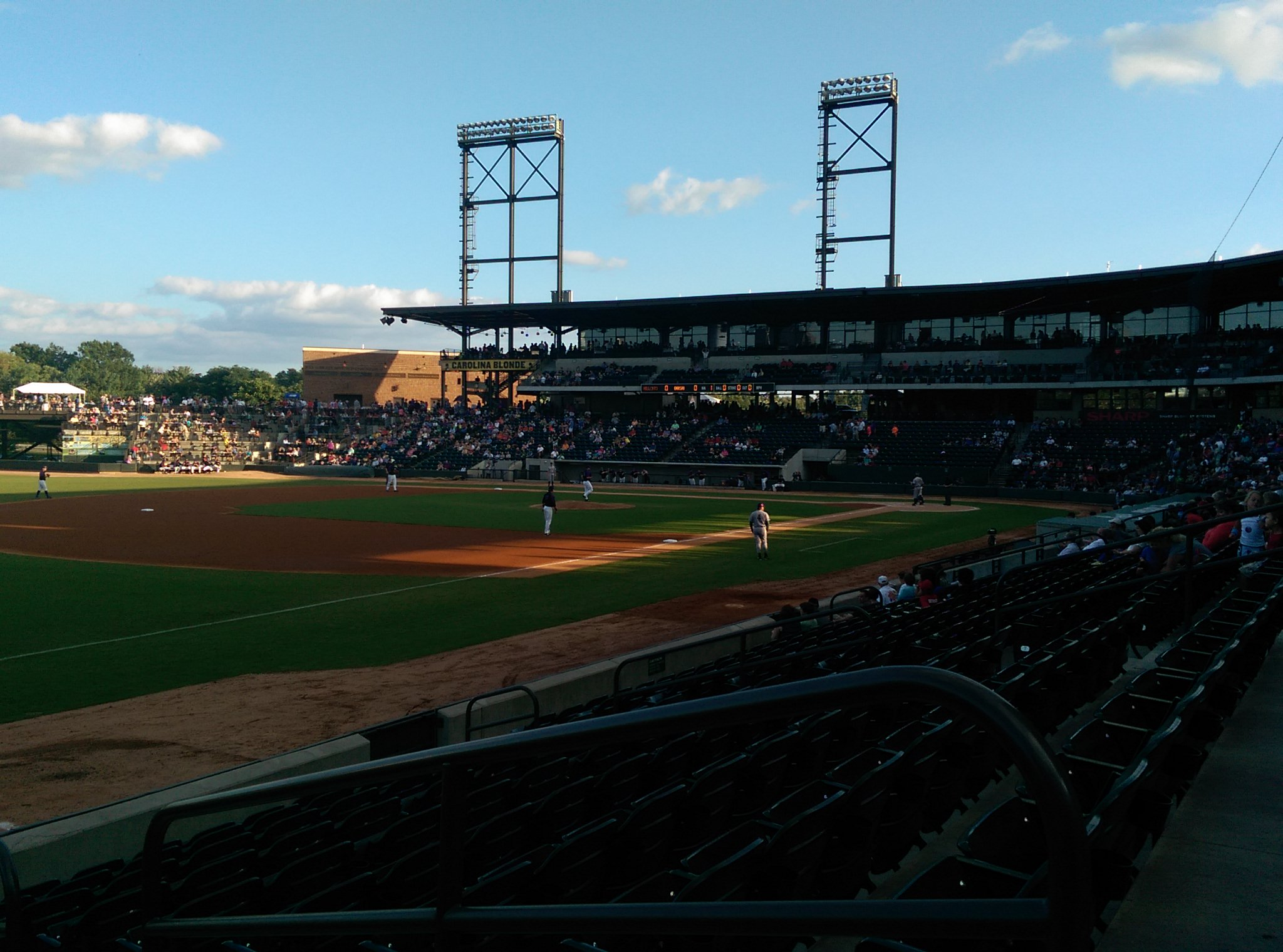 Beautiful night for baseball.